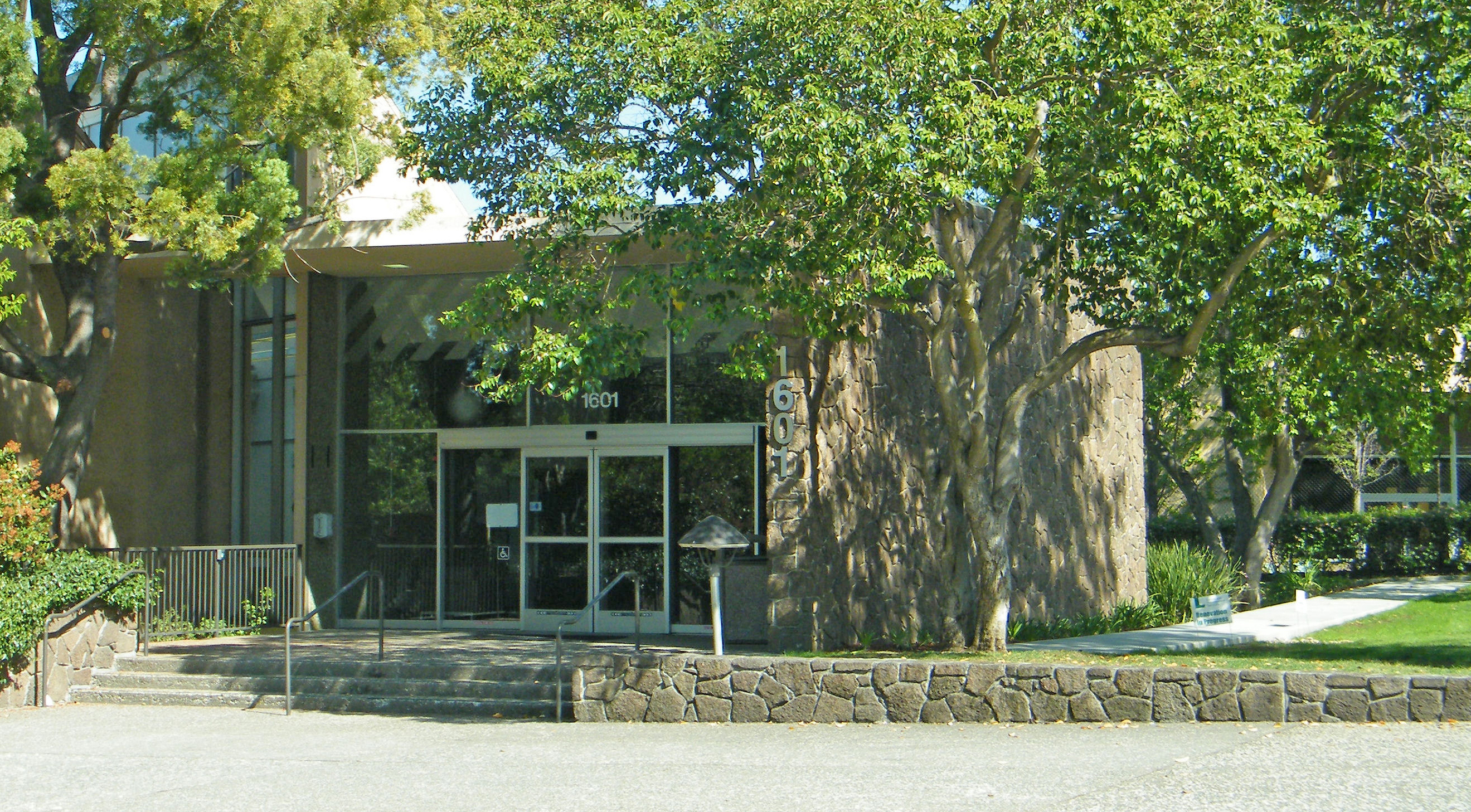 Entrance to the lobby of the office building at 1601 California Avenue in Palo Alto. Facebook moved into this building on May 14, 2009. Photographed by user Coolcaesar on May 25, 2009.